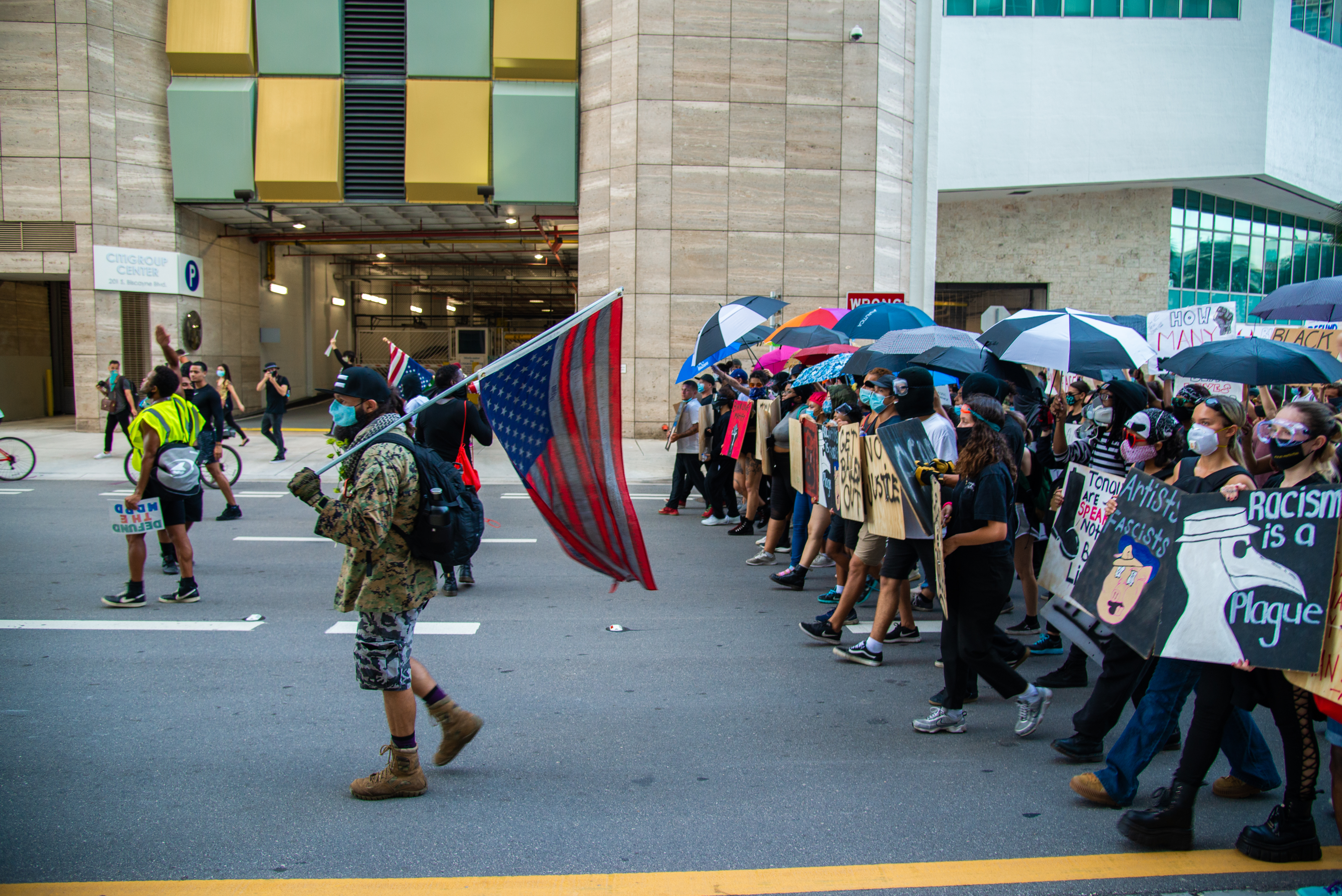 Protesters meet police on I-95 during the Downtown Miami protests on June 12